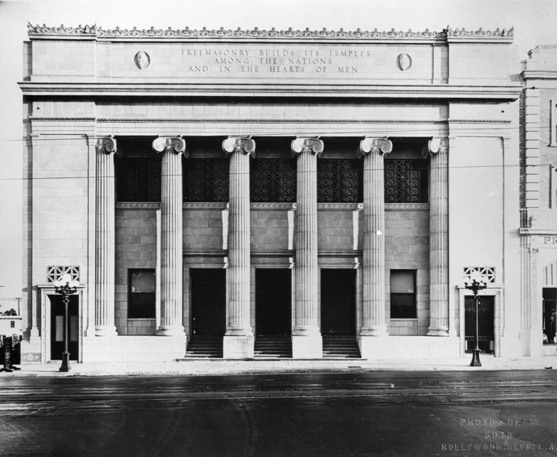 The Hollywood Masonic Temple (Now a part of the El Capitan Theatre Complex), after completion in 1922. Historical Notes: This structure was designed by Architects Austin, Field & Fry in a Greek Revival design and built in 1922.